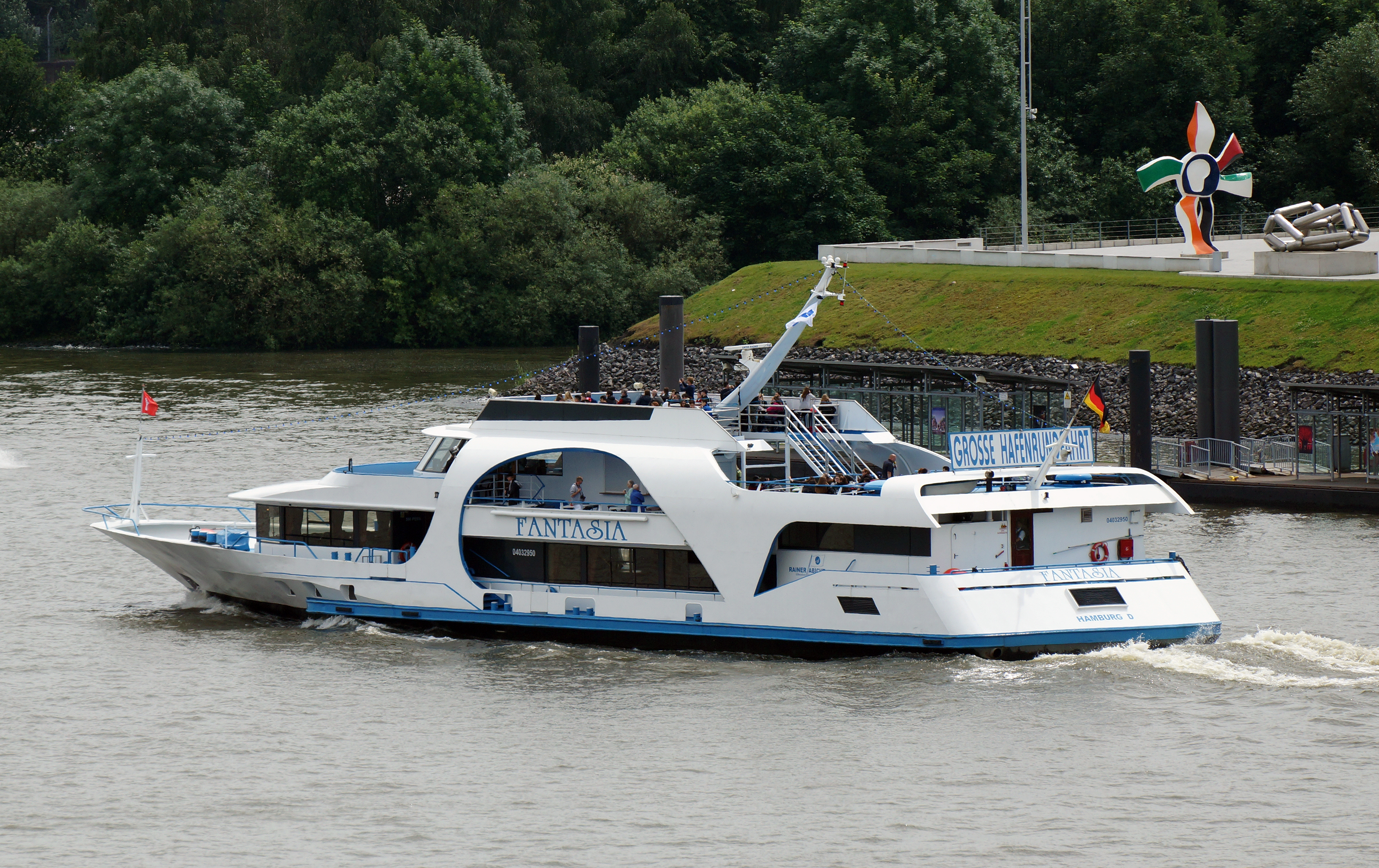 The passenger ship Fantasia in Hamburg.